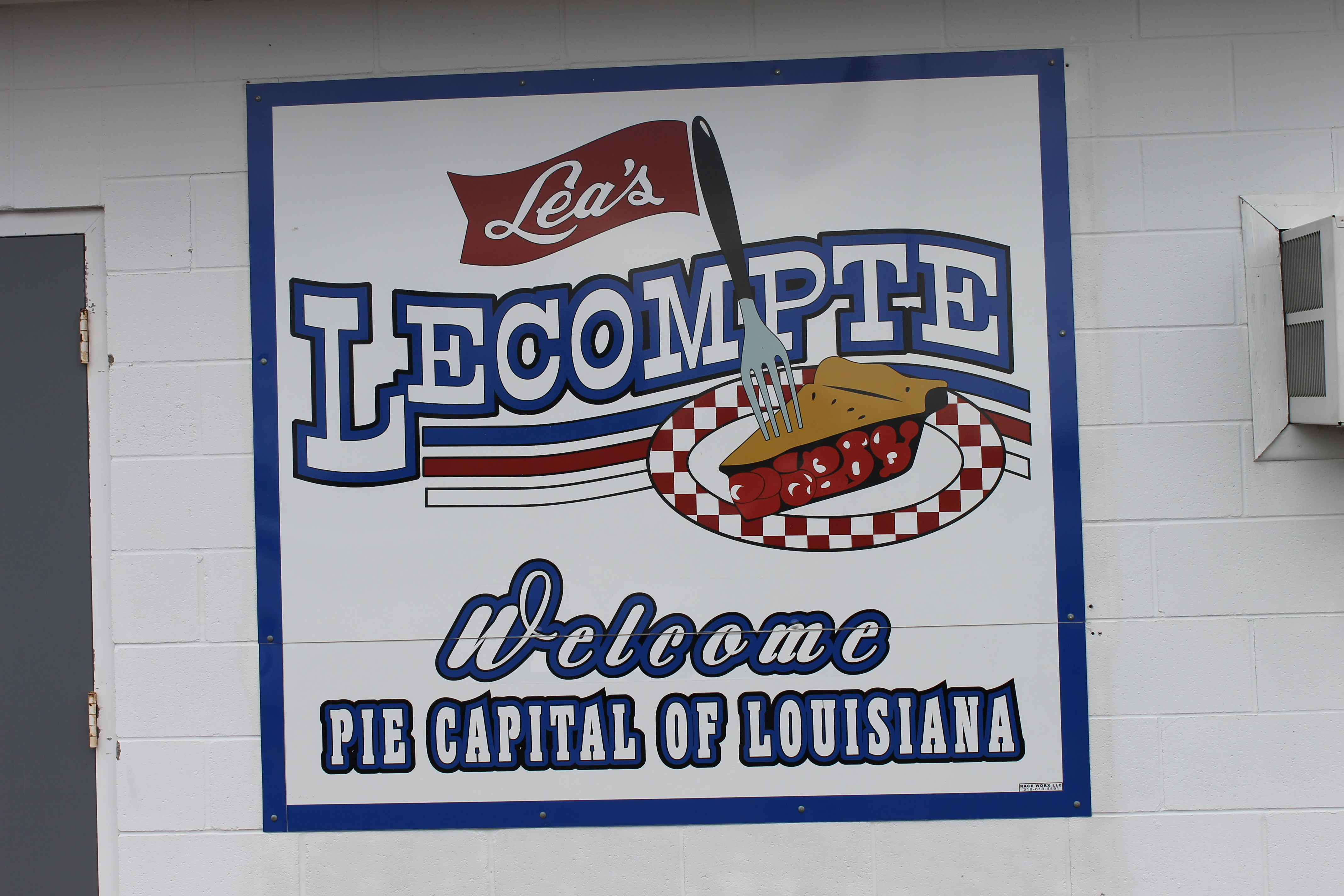 Lecompte, LA, welcome sign "Pie Capital of Louisiana"